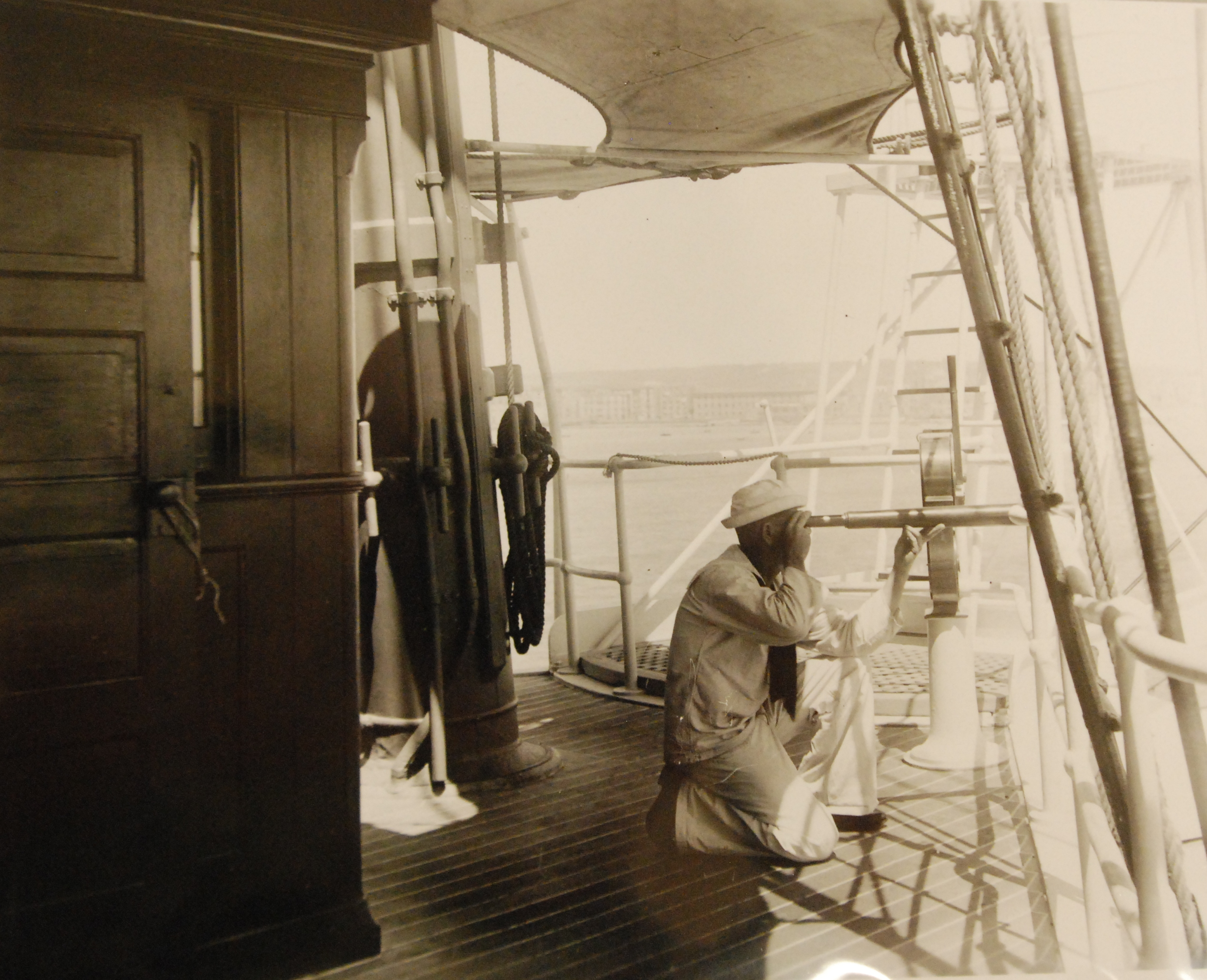 LC-J698-61293_Lot 8688: USS Olympia (Cruiser #6), view on deck with US Navy sailor looking through telescope, circa 1899. Photograph by Francis B. Johnston. Courtesy of the Library of Congress. (5/15/2015).